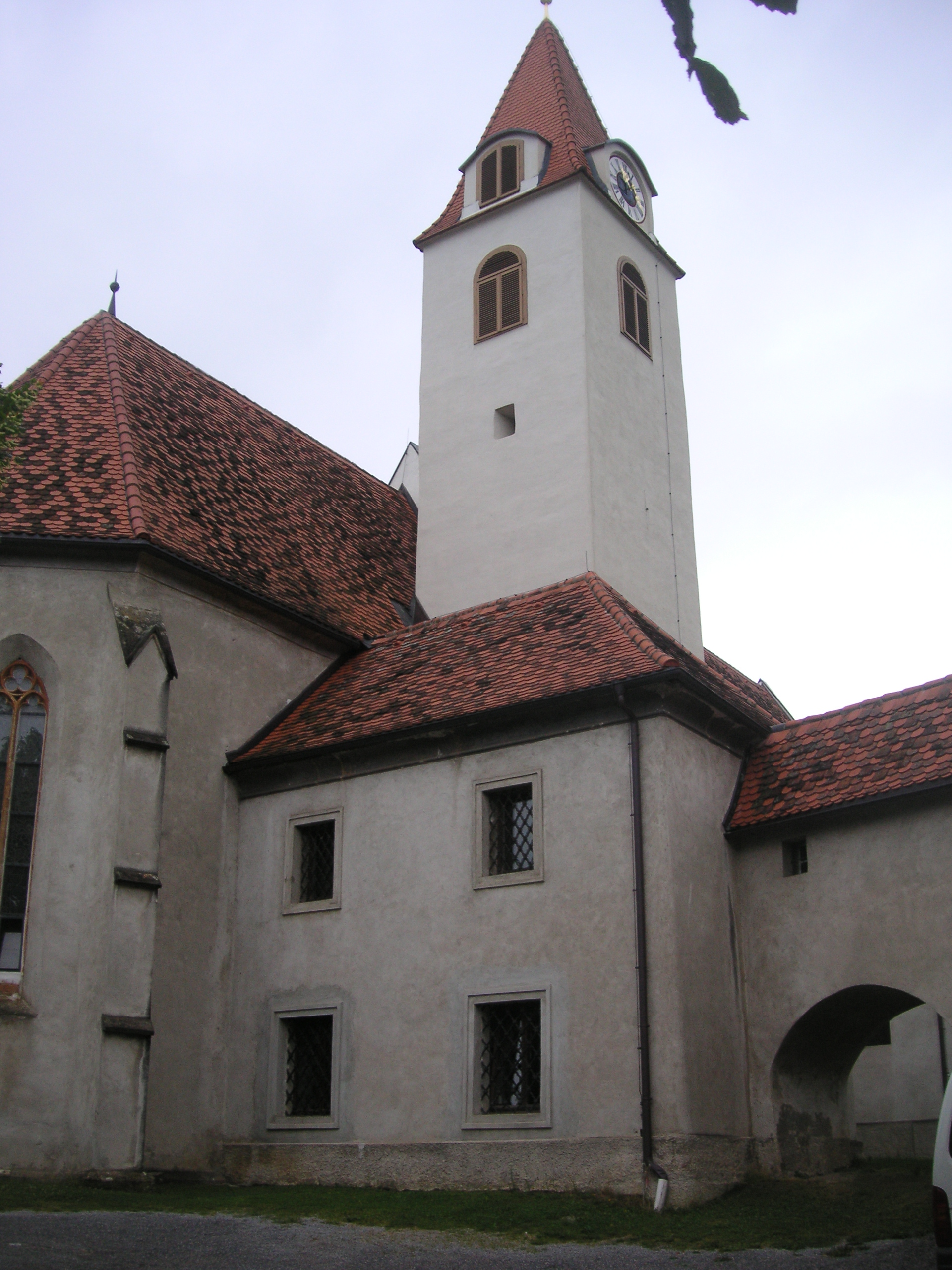 The church of Gratwein, Styria, Austria. View from East to West